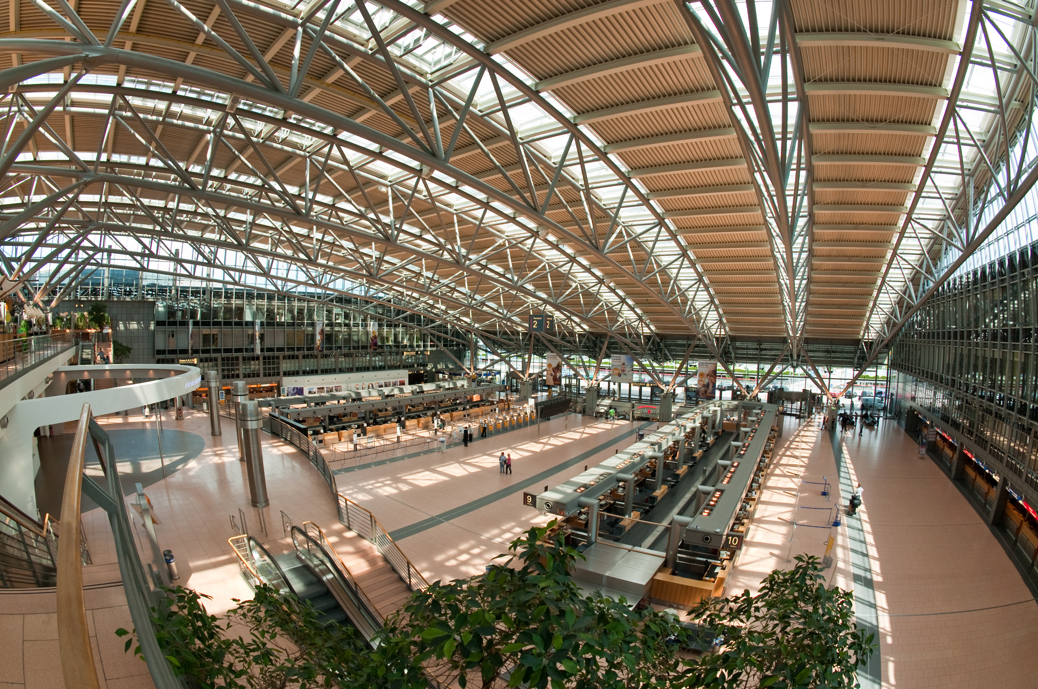 Hamburg Airport Terminal 2